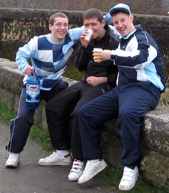 Young men in Glasgow photograph taken on 5 April 2006 by User:Dave souza. Any re-use to contain this licence notice and to attribute the work to User:Dave souza at Wikipedia.